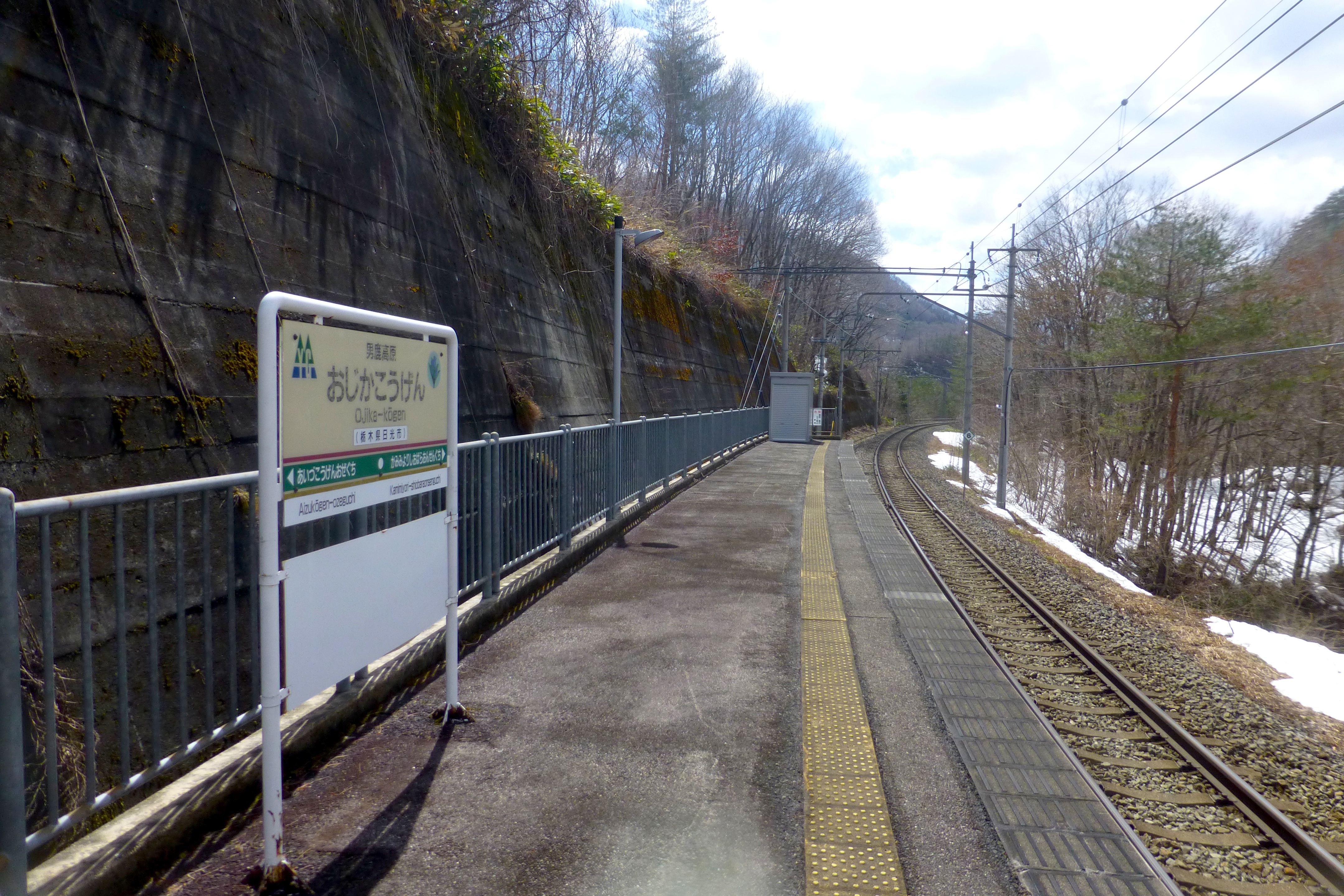 Ojika-Kōgen Station (男鹿高原駅 Ojika-Kōgen-eki) is a train station in Nikkō, Tochigi Prefecture, Japan. This is on the platform looking away from the small enclosed booth for waiting.